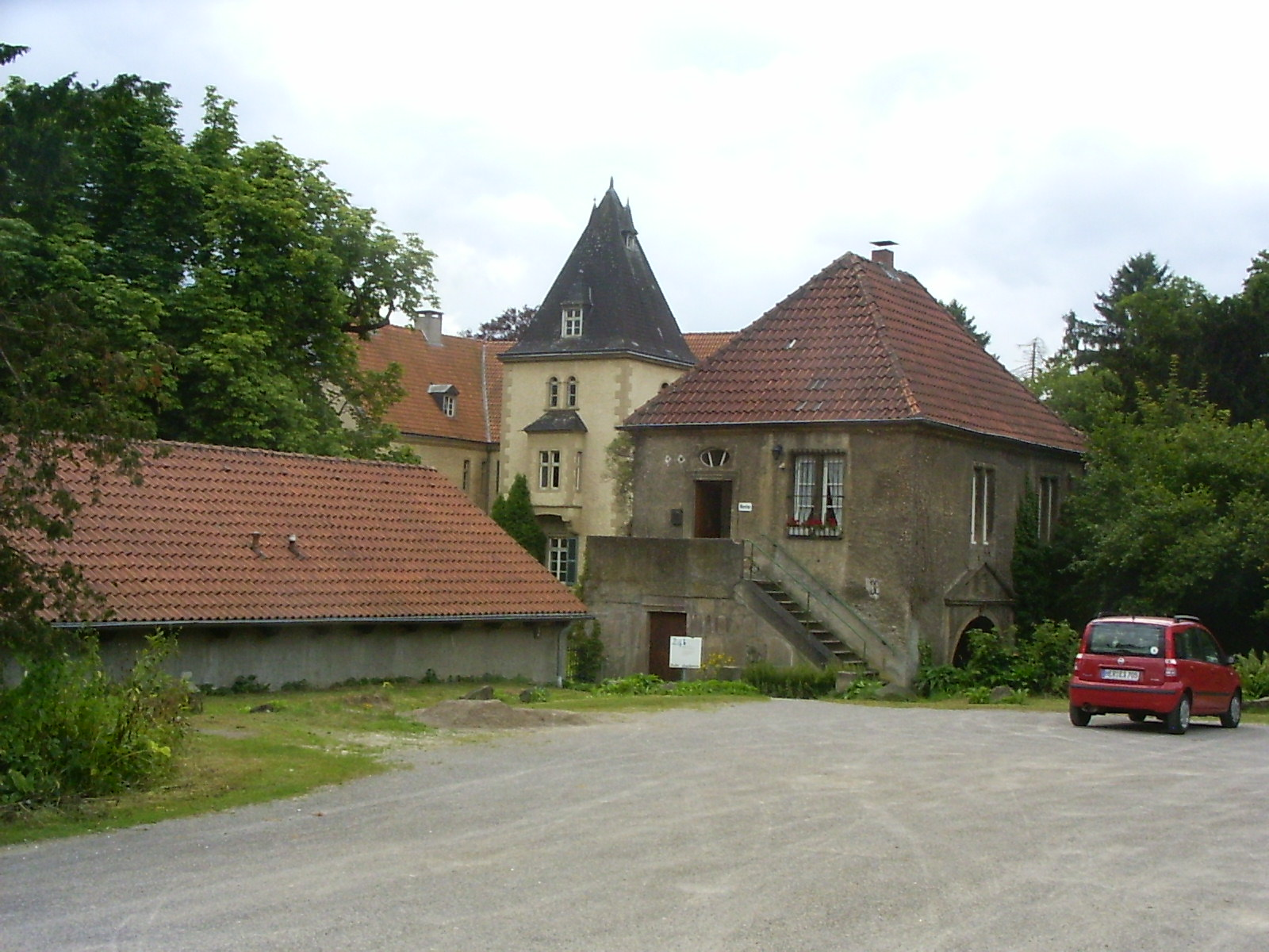 Ruhr Academy, Schwerte